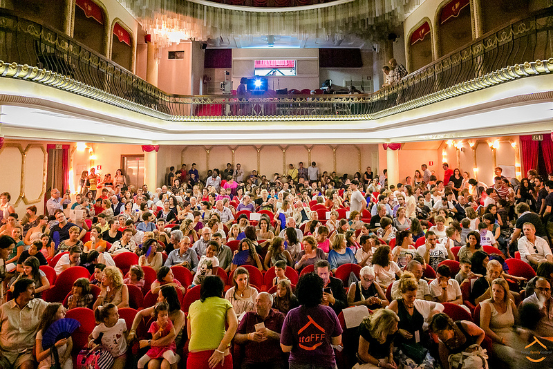 Il FFF al Teatro Comunale di Fiuggi